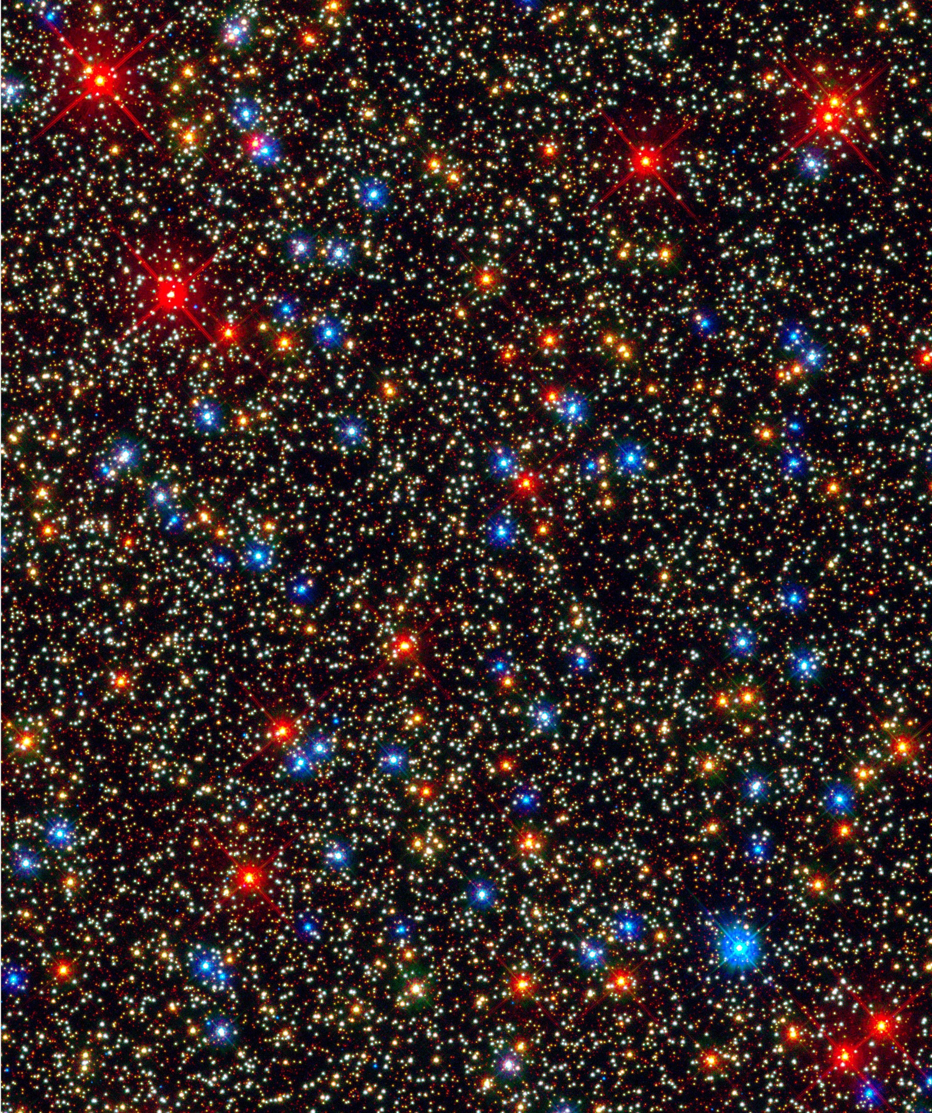 The image reveals a small region inside the massive globular cluster Omega Centauri (NGC 5139). This is one of the first images taken by the new Wide Field Camera 3 (WFC3), installed aboard Hubble in May 2009, during Servicing Mission 4. Hubble observed Omega Centauri on July 15, 2009, in ultraviolet and visible light. These Hubble observations of Omega Centauri are part of the Hubble Servicing Mission 4 Early Release Observations.